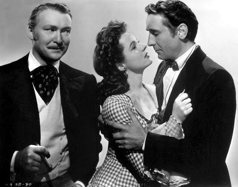 Left to right: Albert Dekker, Jane Wyatt, and Victor Jory in The Kansan (1943) - publicity still (original image cropped : see source)